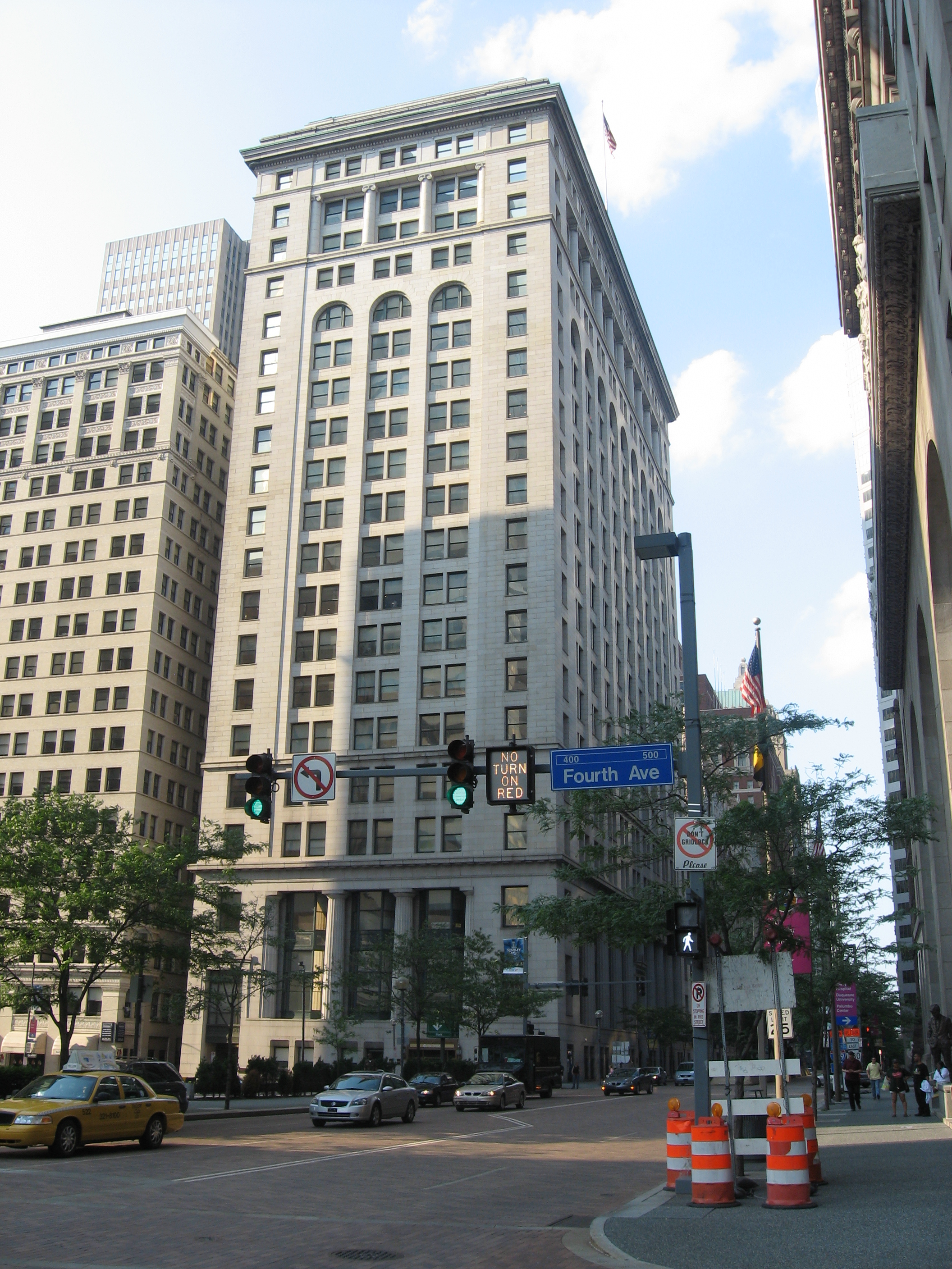 Photo of the Frick Building in Pittsburgh40°26′21″N 79°59′51″W / 40.43917°N 79.9975°W